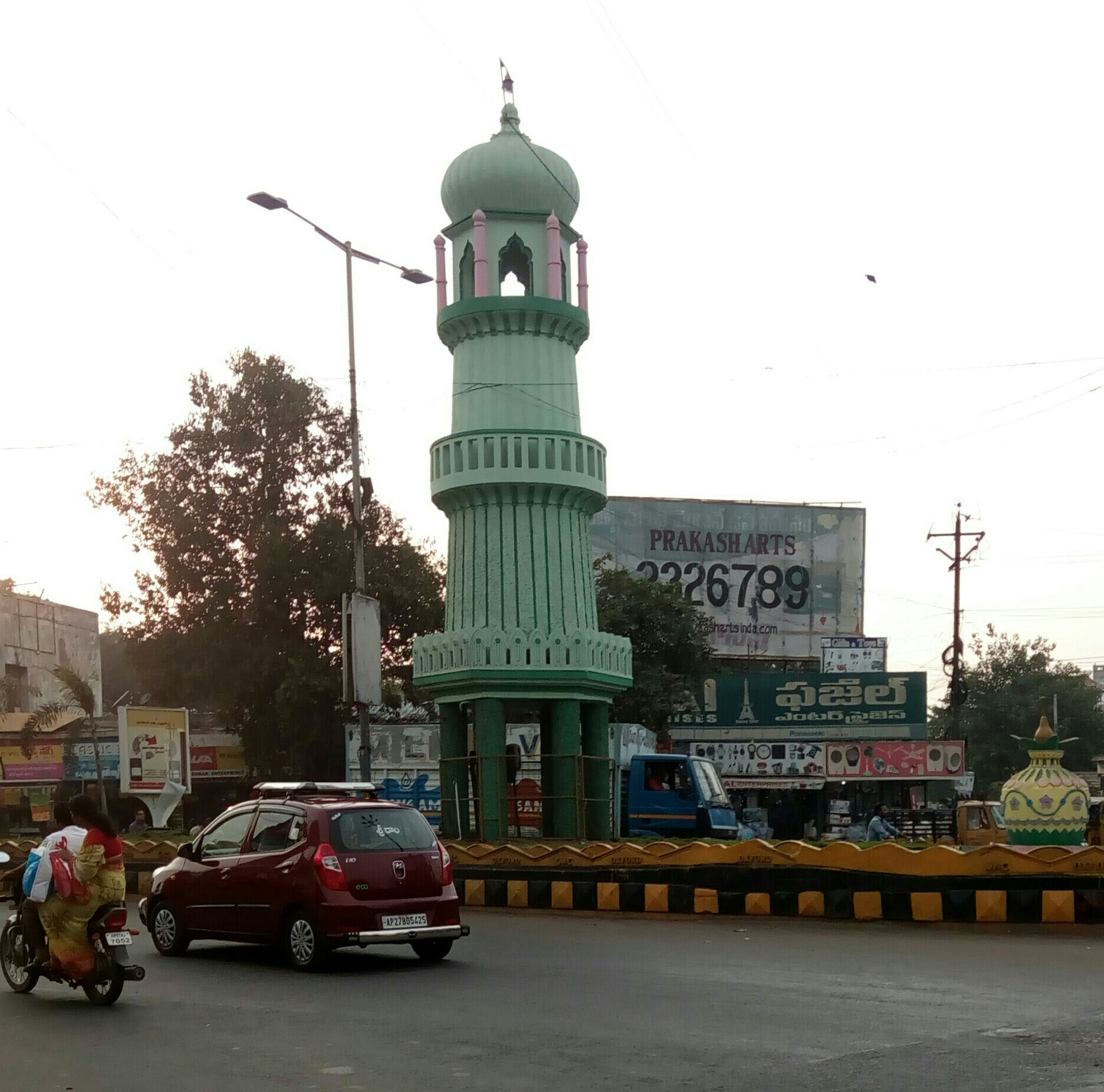 Jinnah Tower centre in Guntur